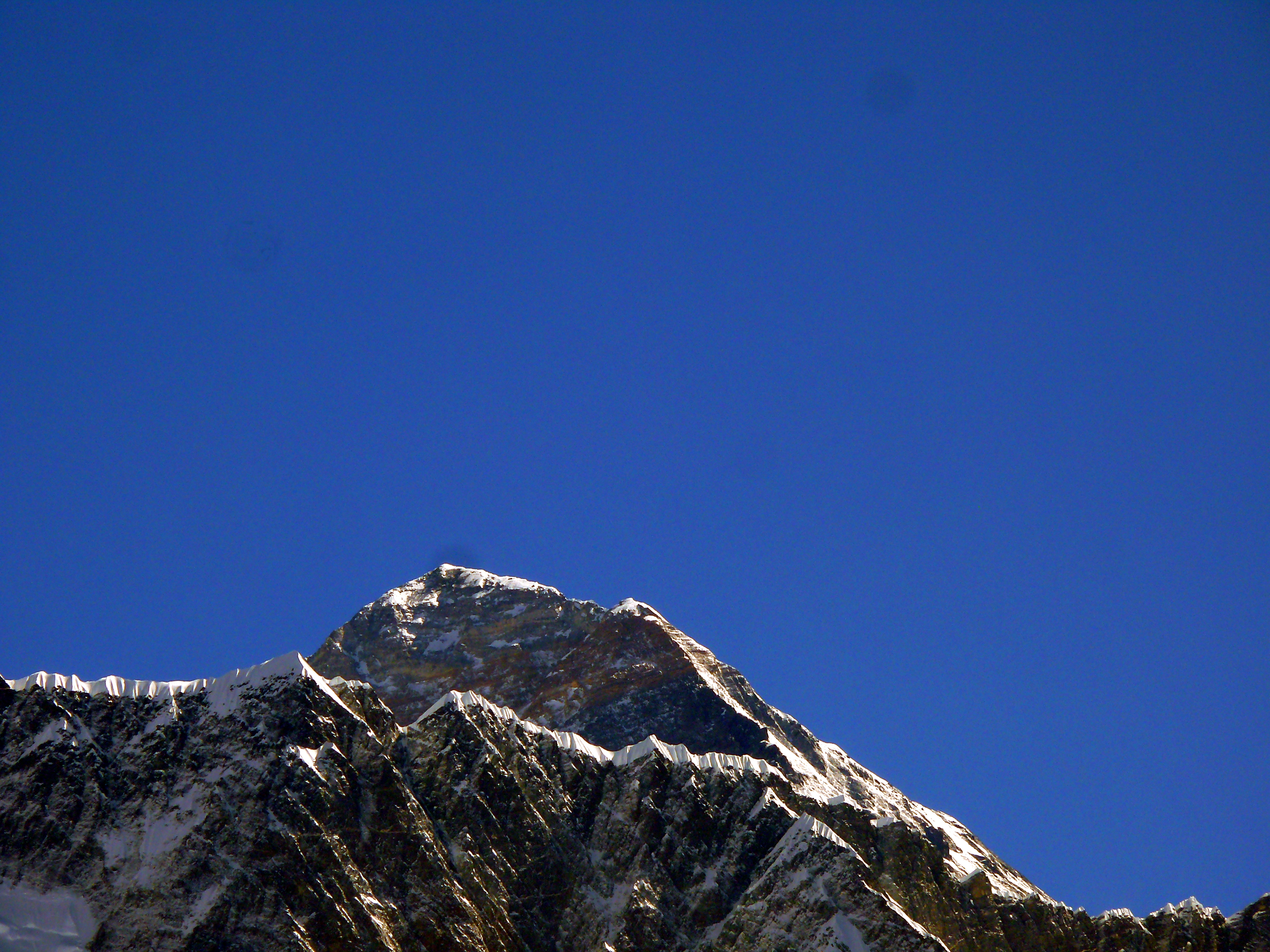 Mount Everest a close view with south summit and yellow band